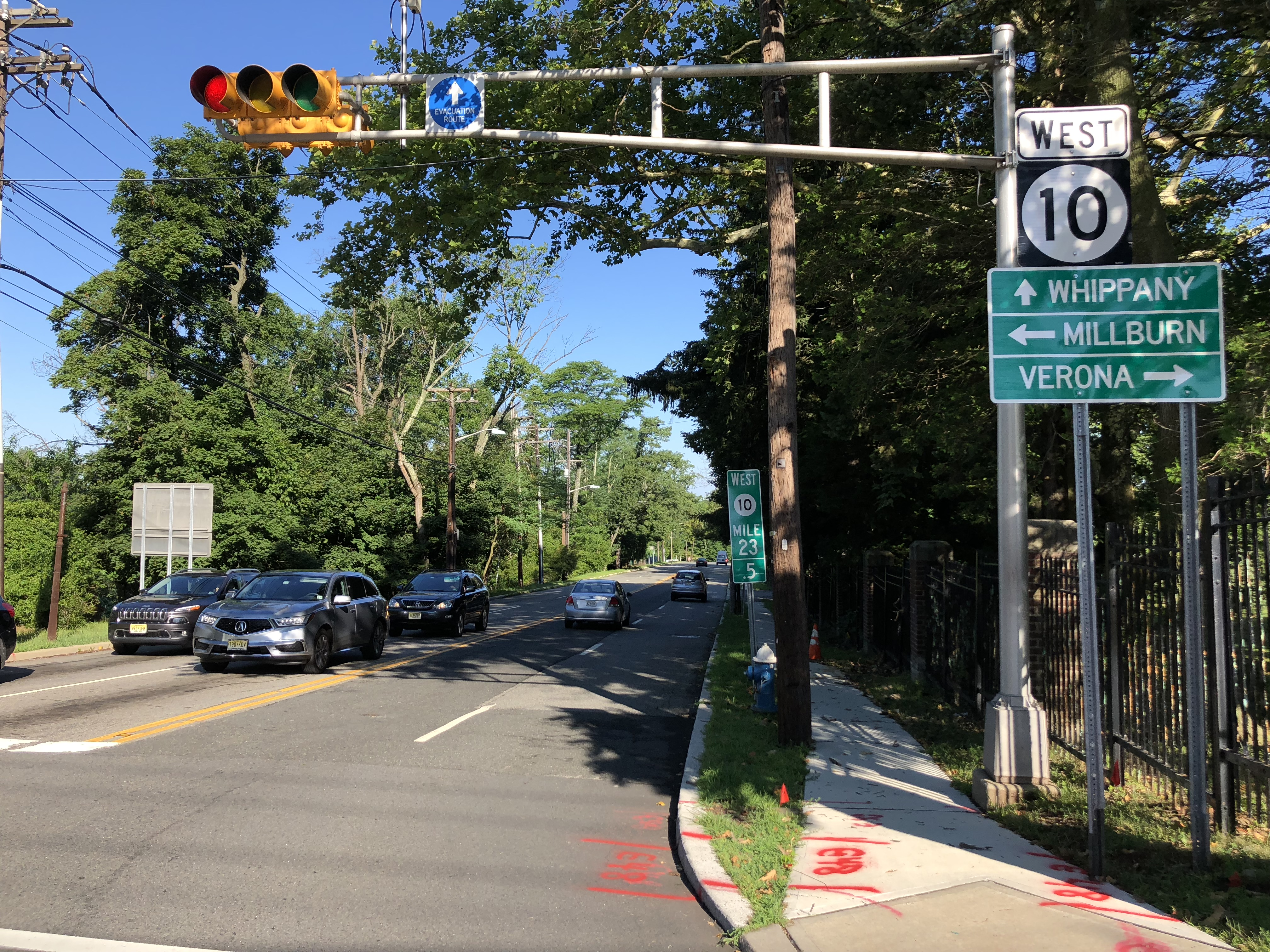 View west along New Jersey State Route 10 (Mount Pleasant Avenue) at Essex County Route 577 and Essex County Route 577 Spur (Prospect Avenue) in West Orange Township, Essex County, New Jersey